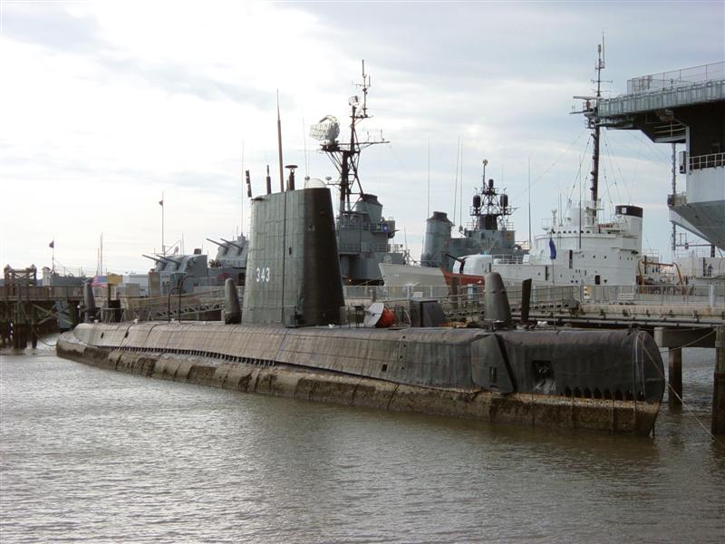 USS Clamagore SS-343 at Charleston, South Carolina November 24, 2003